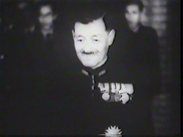 Ken Terajima (IJN Vice Admiral, Minister of Communications and Minister of Railways between 1941 and 1943)